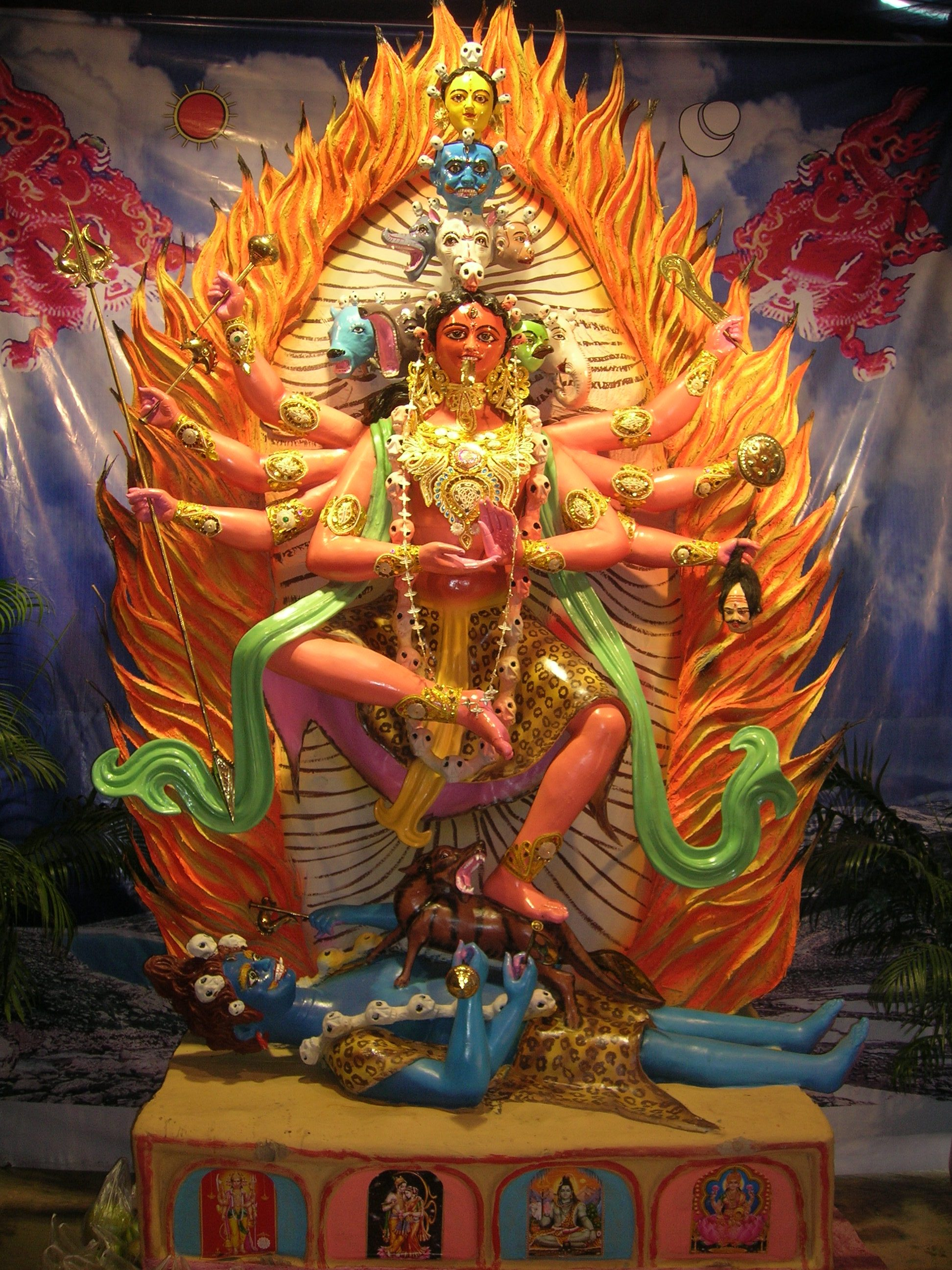 Replica of a Gujhyakali idol worshipped in a Temple in Nepal, at a Kali Puja pandal at S. N. Banerjee Road, Kolkata.